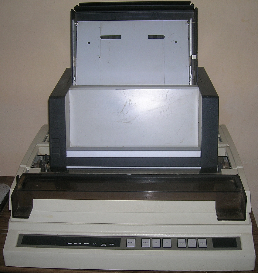 Diablo D630, DaisyWheelPrinter with mounted sheet feeder, Xerox produced 1981